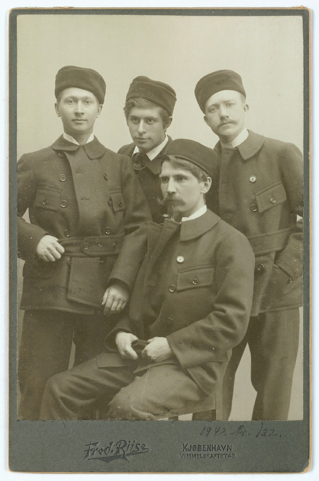 Some of the five participants of The Literary Greenland Expedition, Danish expedition to Greenland 1902-1904: Harald Moltke, Ludvig Mylius-Erichsen, Knud Rasmussen, Alfred Bertelsen, and Jørgen Brønlund.